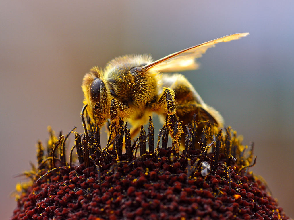 Bee collecting pollen at the Del Mar fairgrounds